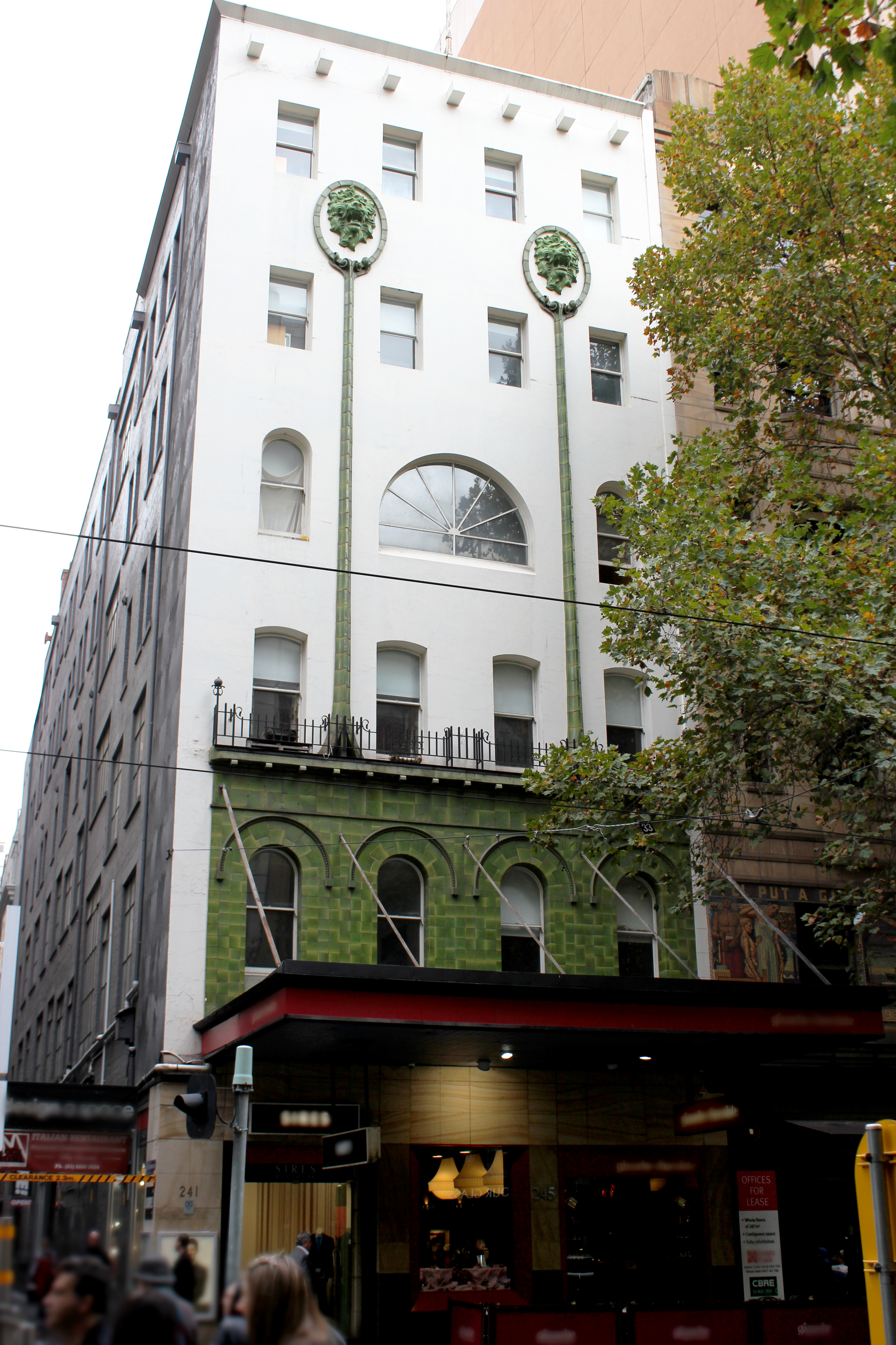 243 Collins St, Melbourne, Victoria, Australia Built 1884, remodeled 1912 by Robert Joseph Haddon